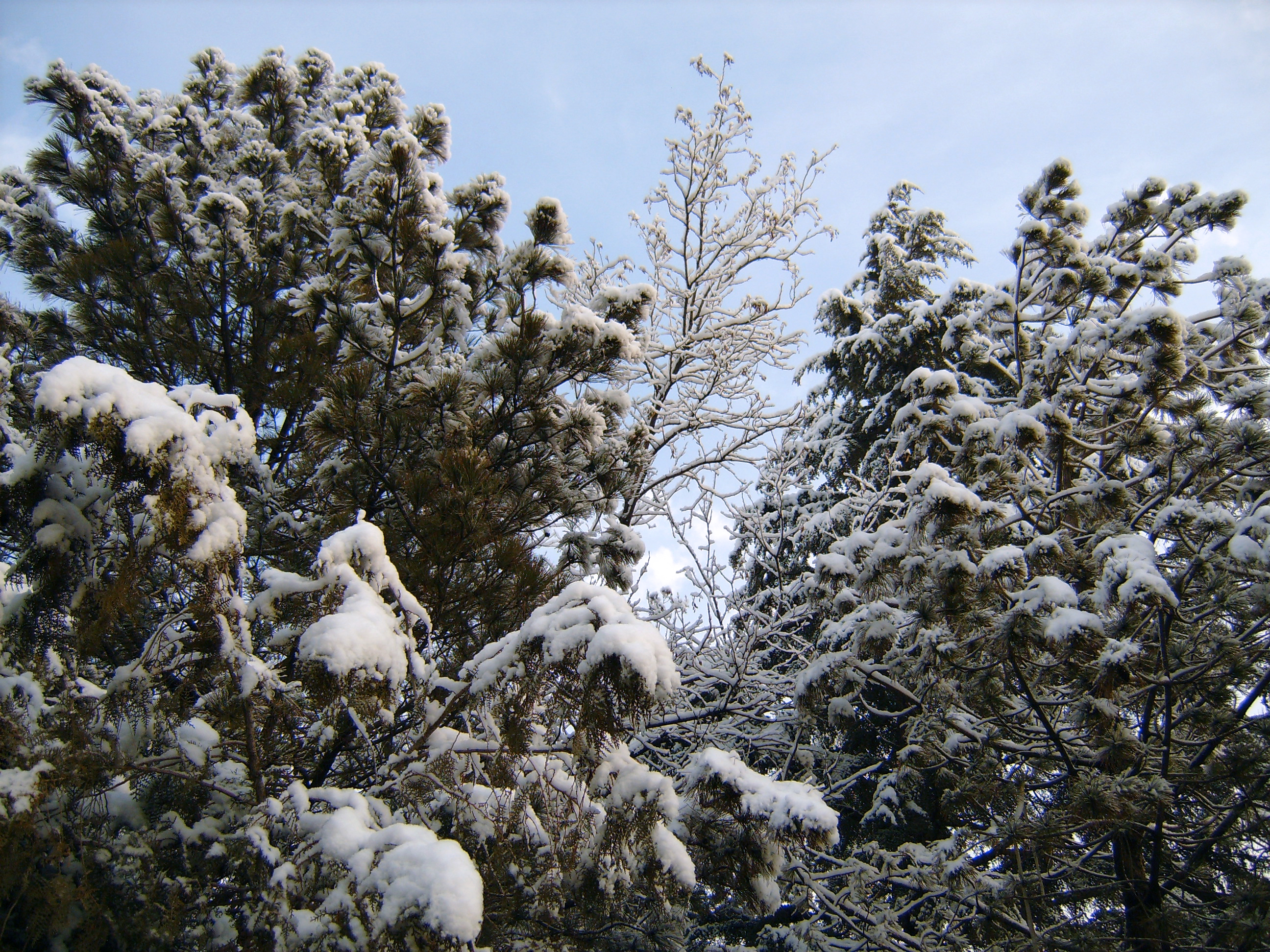 Snow capped trees I photographed during a deployment to Afghanistan. That winter season (2003-2004) had one of the worst snowfall deluges in over 50 years [1] causing widespread flash floods after it melted. I, Mark Jurrens, took this picture.